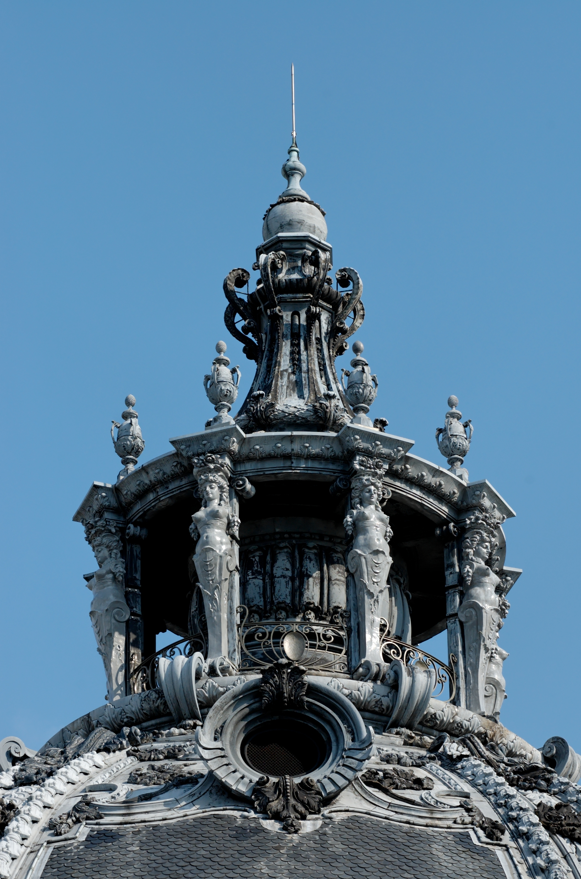 Lantern of the dome of the Petit Palais in Paris, built for the Universal Exhibition of 1900 by architect Charles Girault.